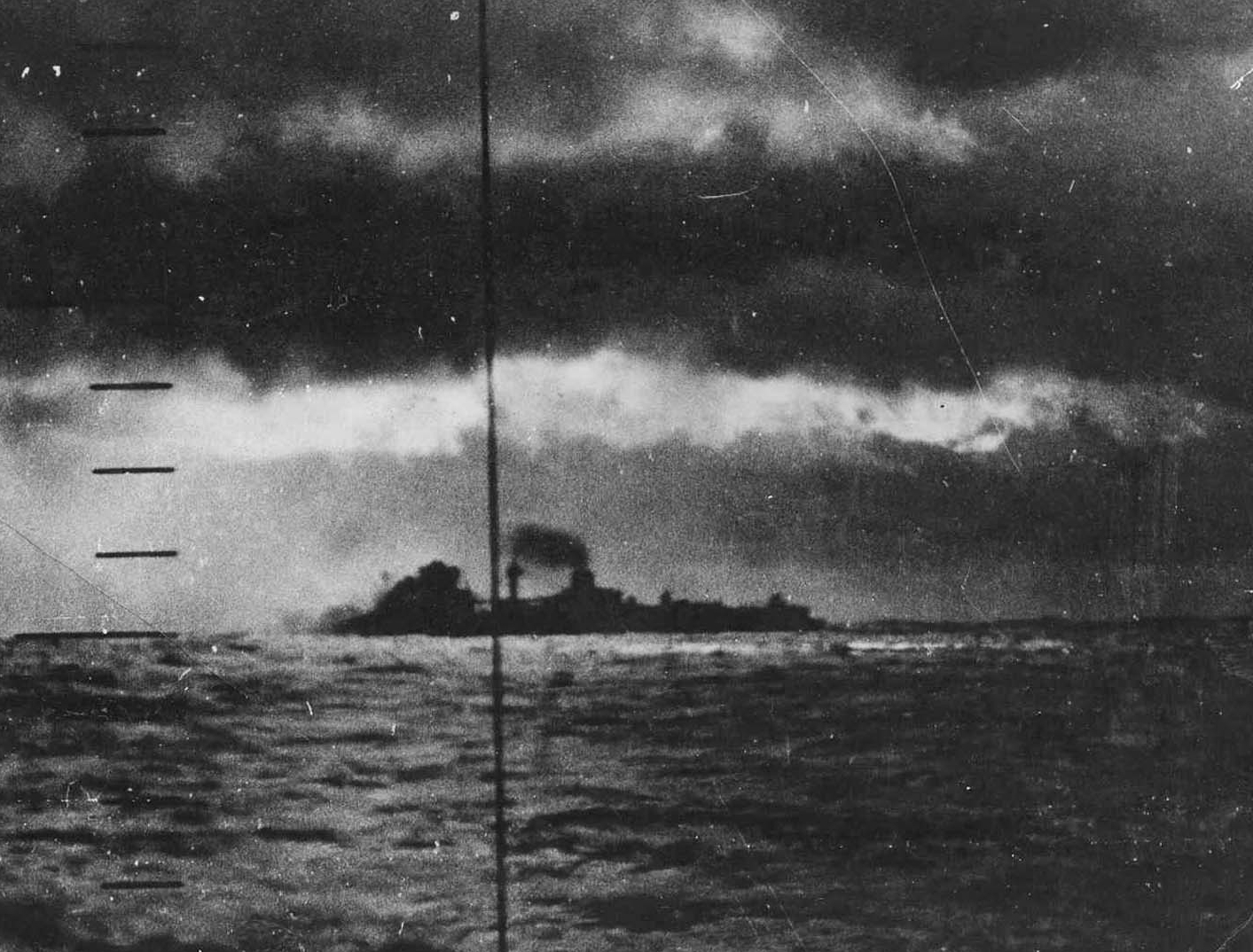 Transport No 15 is sinking, after Tautog's torpedo attack